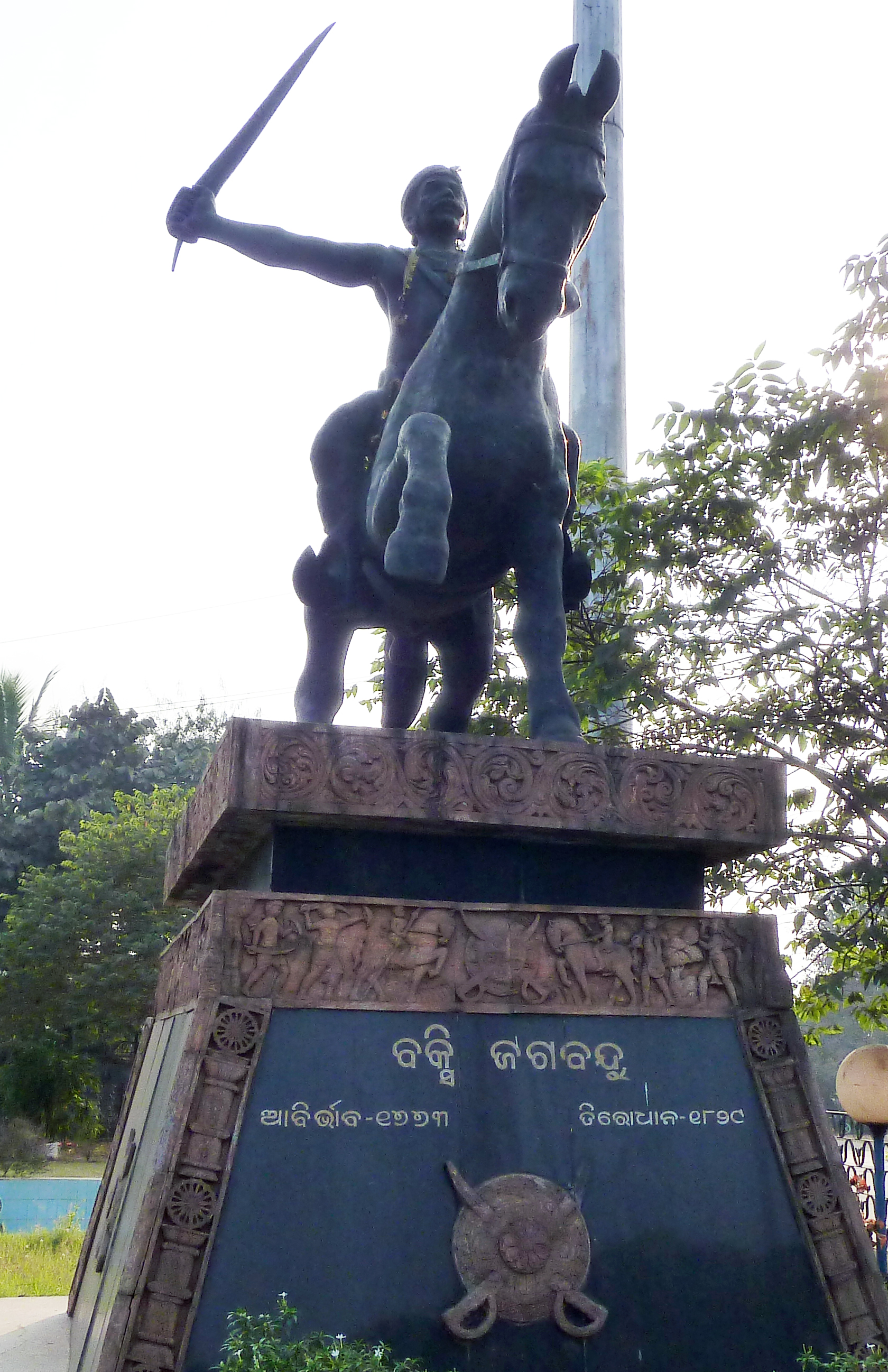 This is the statue of Bakshi jagabandhu. This photo of this statue is taken in front of state museum, Kalpana chowk, Bhubaneswar.